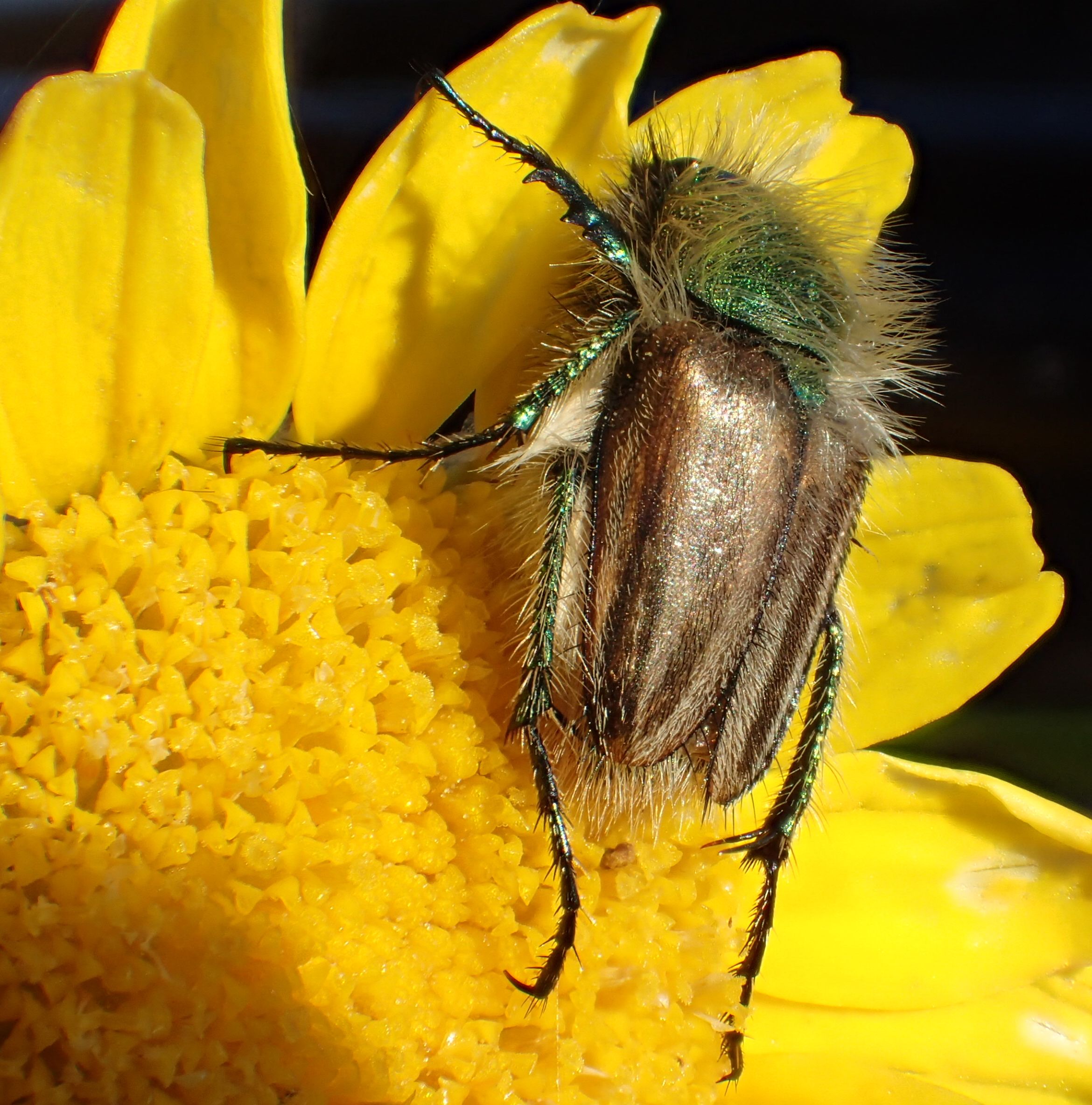 Eulasia pareyssei from Greece, Peloponnese, near Olympia, at 2016-05-05